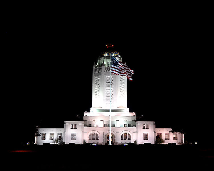 A contemporary picture of "The Taj", the old Administration building at Randolph Air Force Base